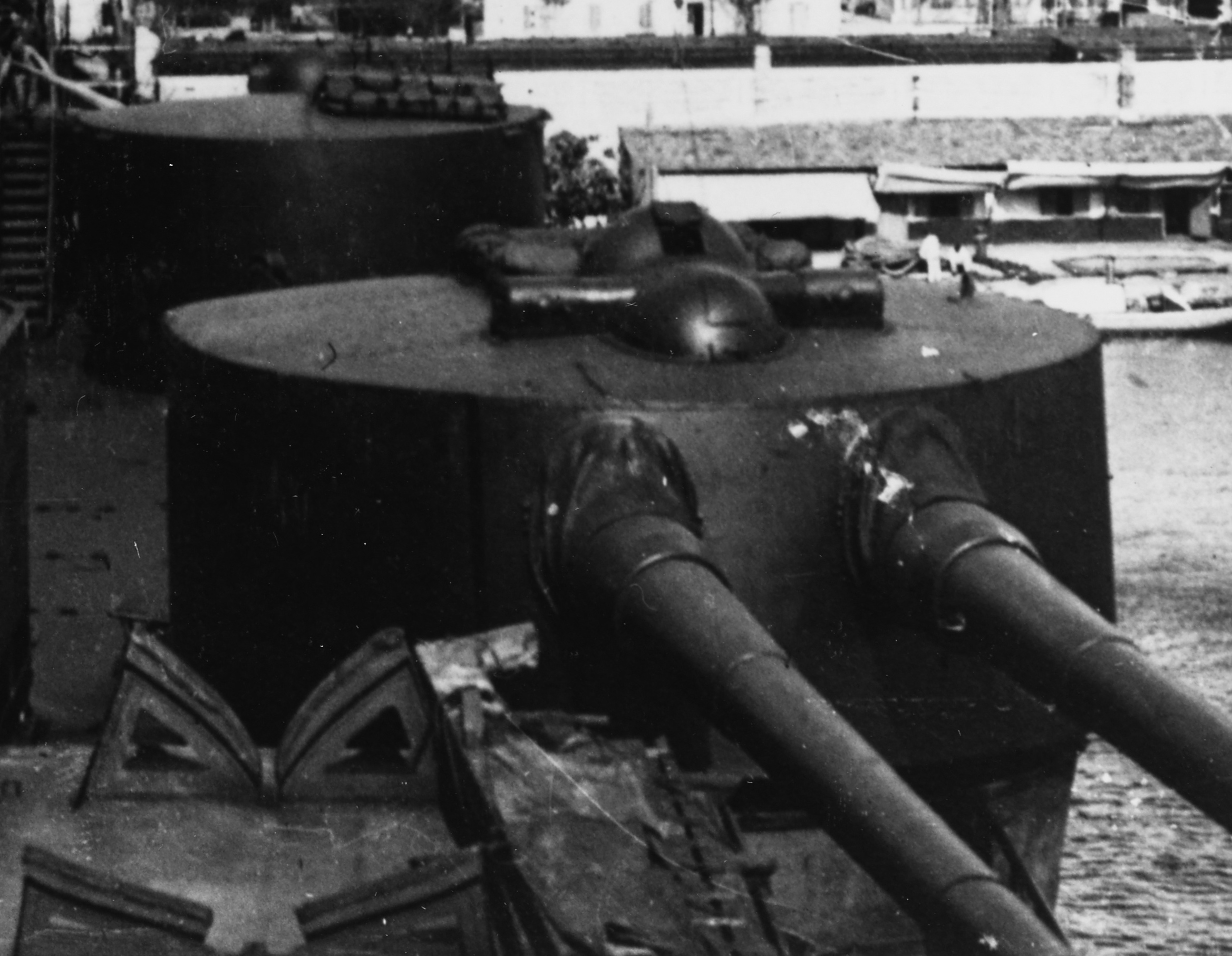 Title: CONDORCET (French battleship, 1909-1942) Caption: Secondary (9.4") turrets photographed at Toulon, France, circa 1919 by Robert W. Neeser.